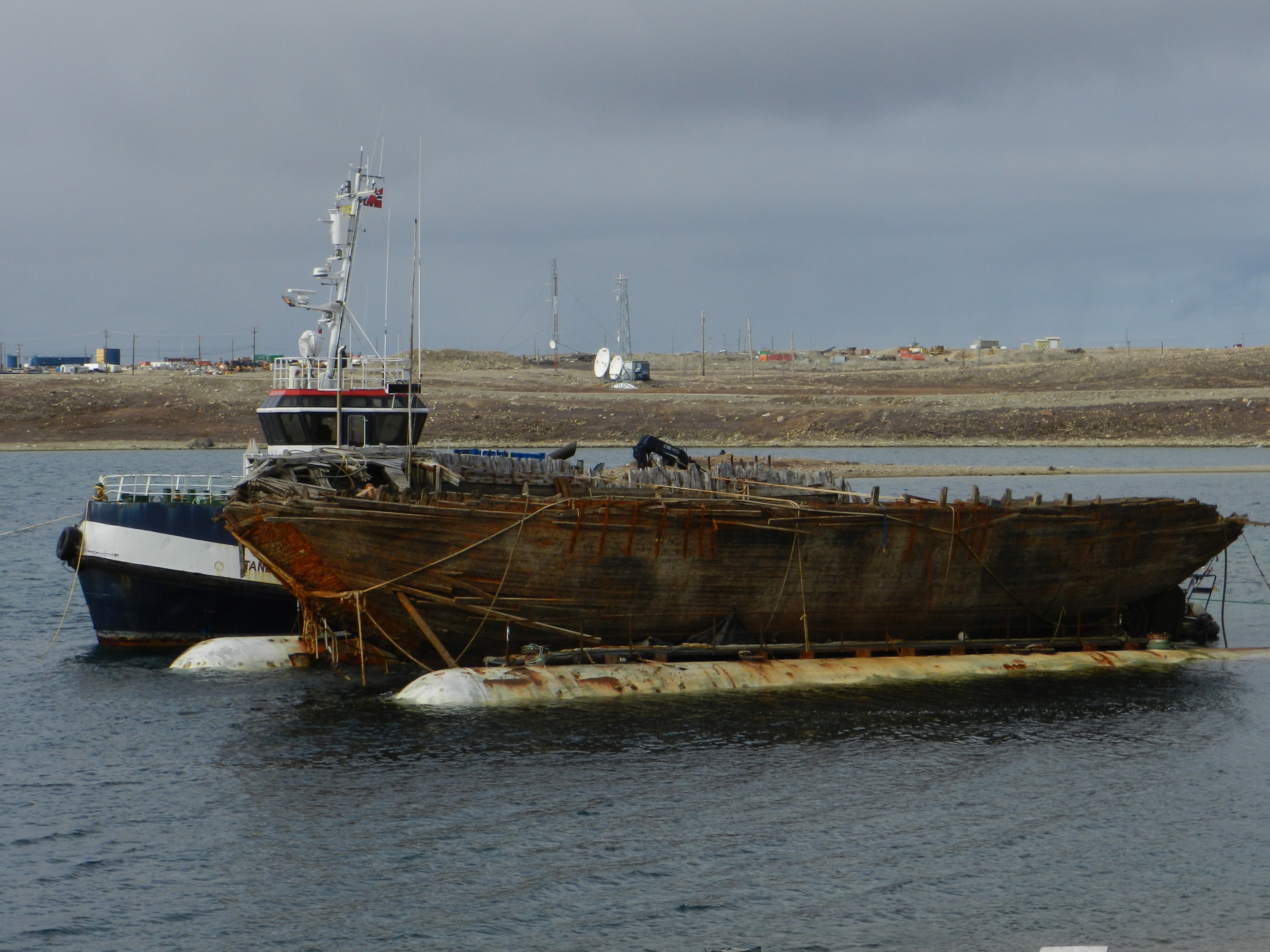 The Maud risen in 2016.